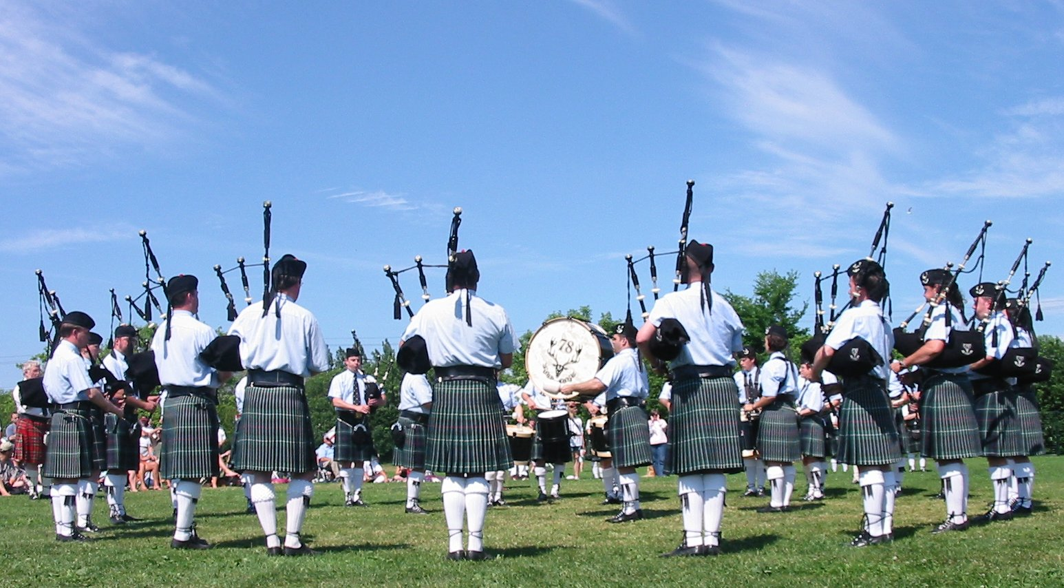 78th Highlanders (Halifax Citadel) at the 2005 Antigonish Highland Games